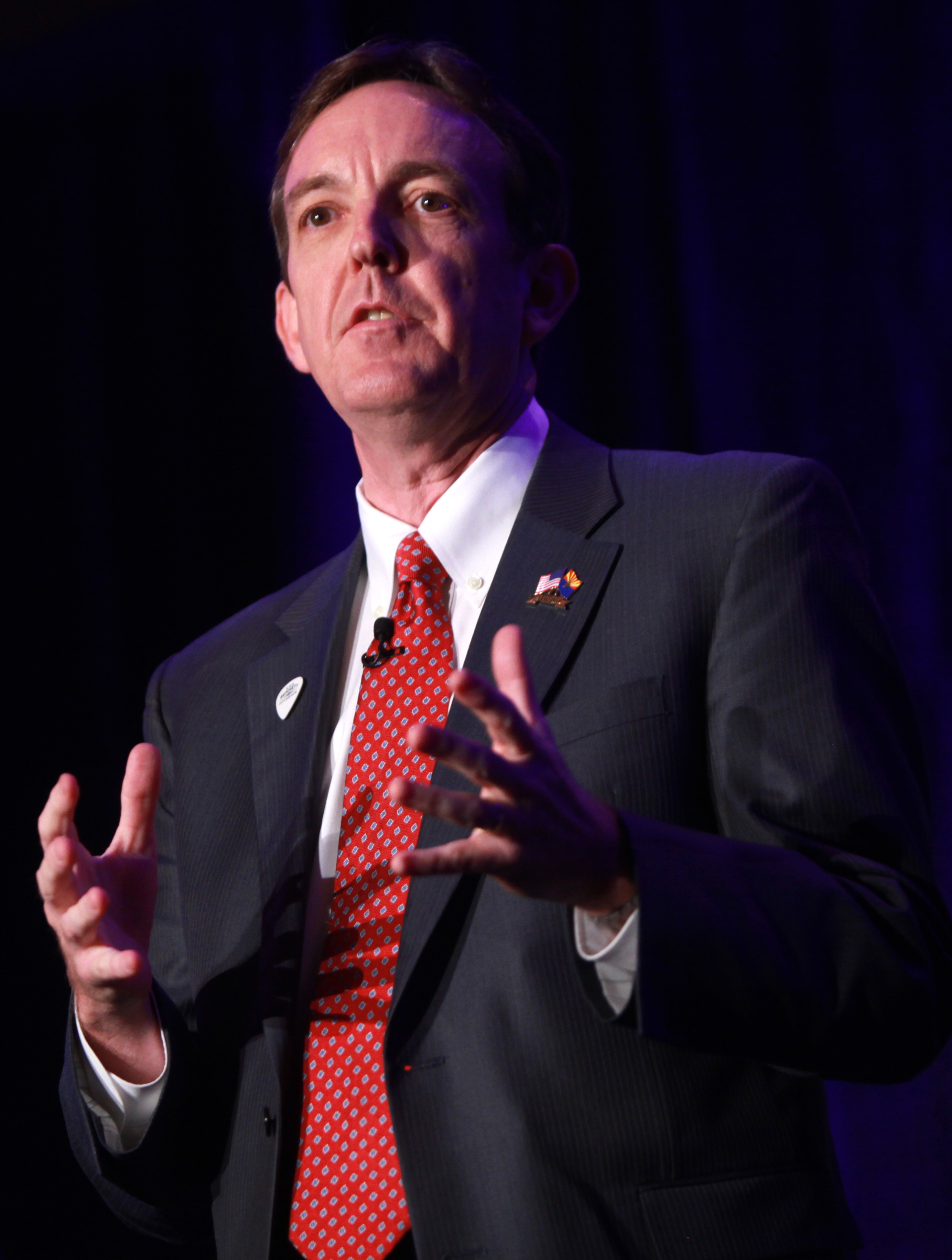 Ken Bennett speaking at an event hosted by the Arizona Chamber of Commerce & Industry in Phoenix, Arizona.